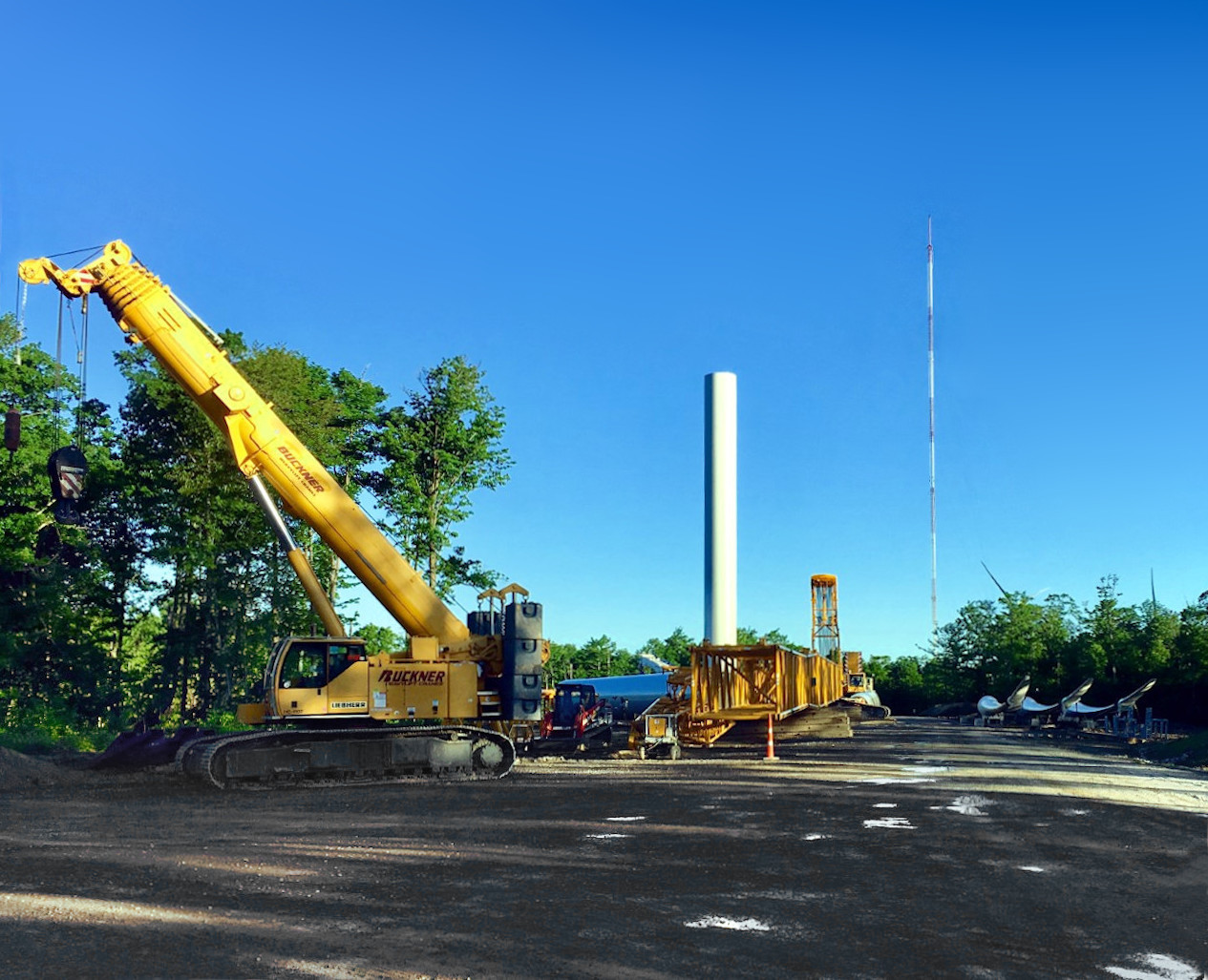 Arkwright Summit Wind Farm under construction on 14 June 2018, taken from Meadows Road in Arkwright, NY.